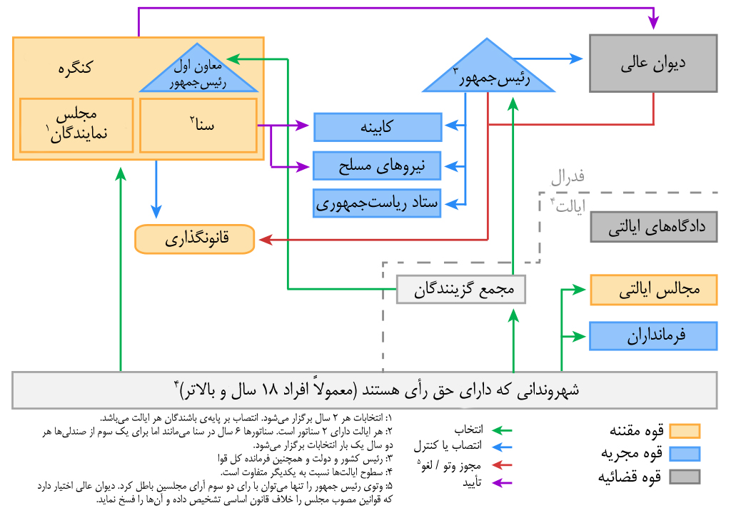 Political system of the United States described in Persian.